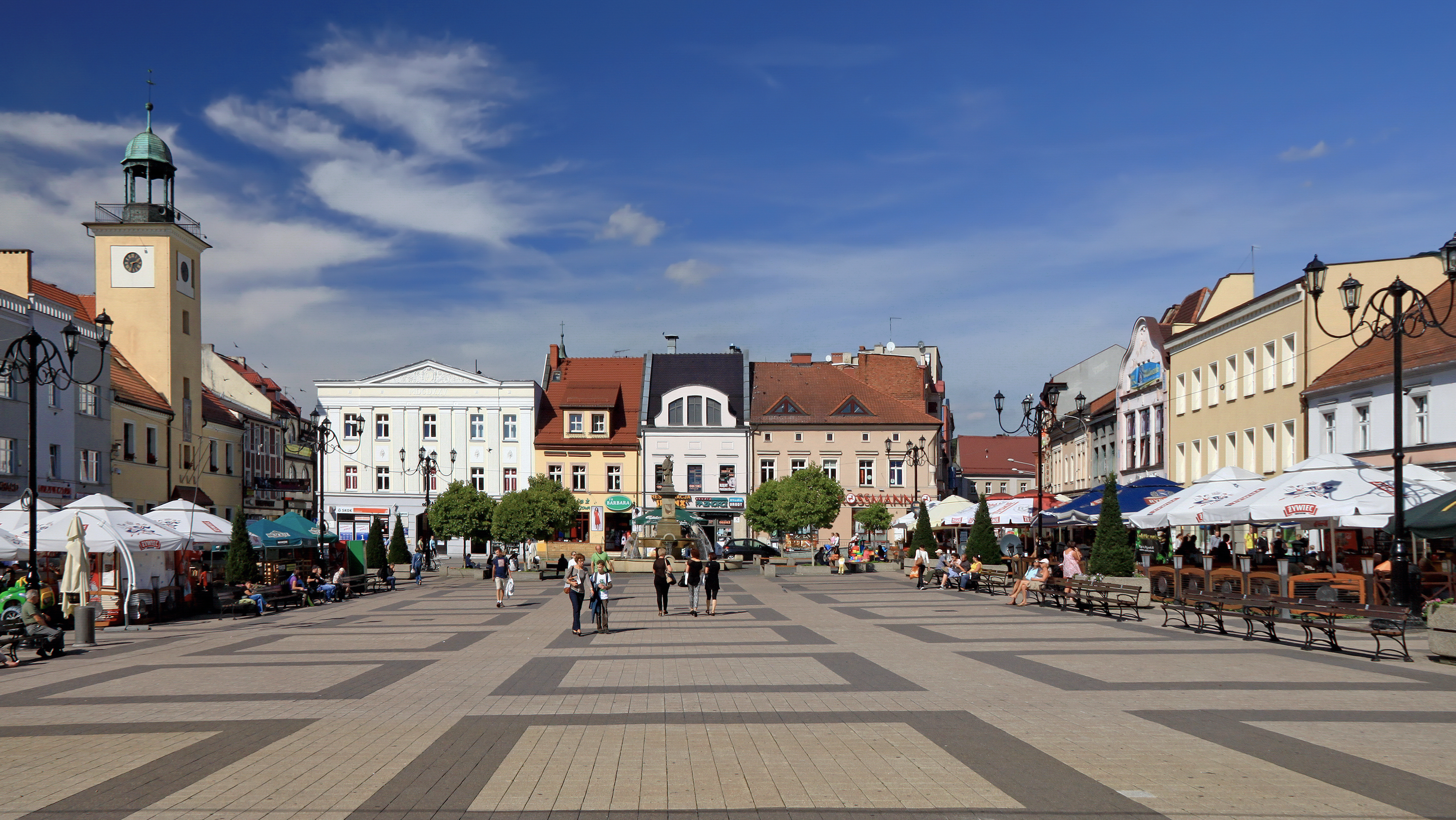 Market Square in Rybnik